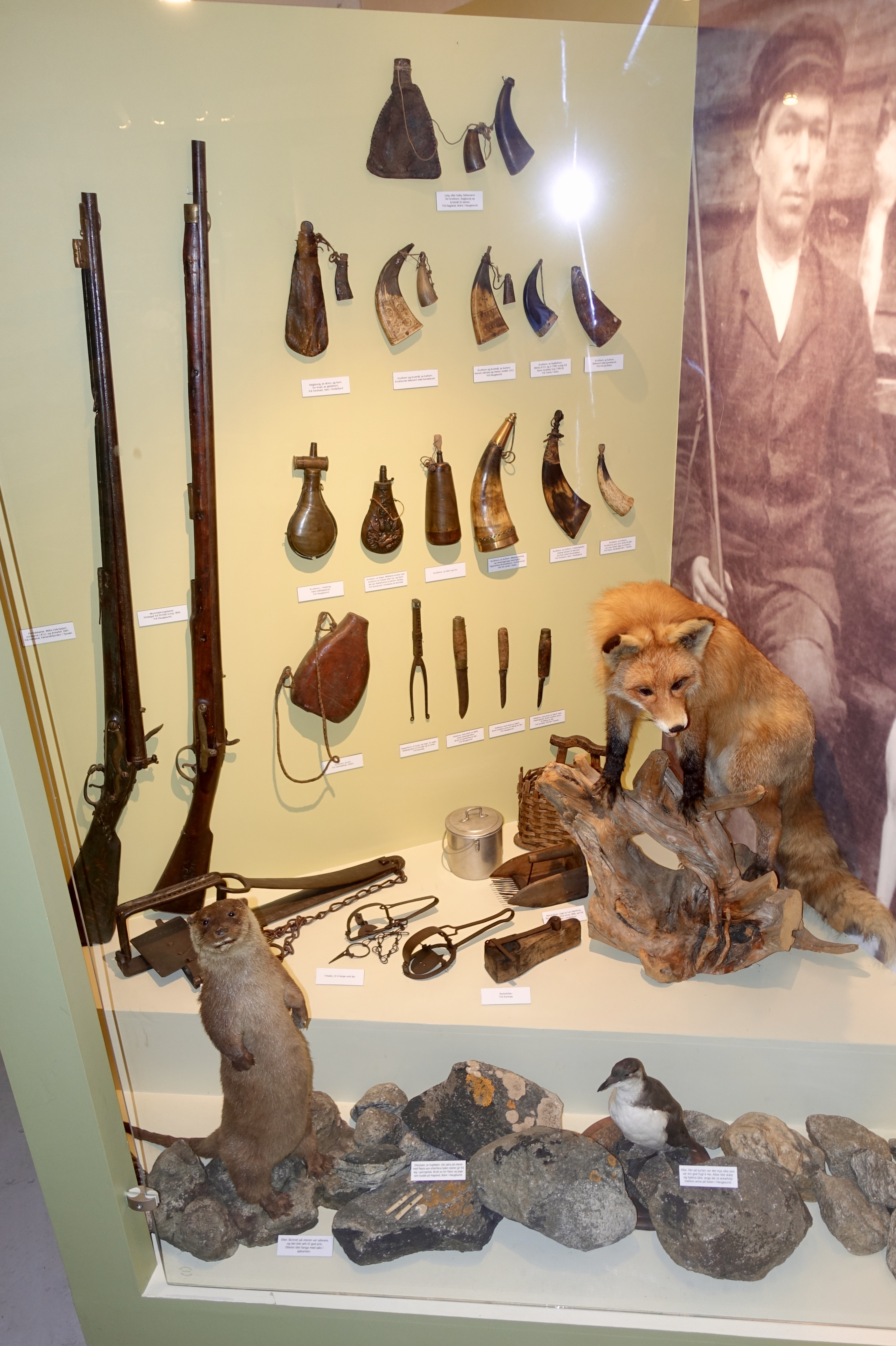 Old hunting guns, gunpowder horns, animal traps, etc. from Rogaland, Norway. Photo taken in the exhibitions of Karmsund folkemuseum, a museum in Haugesund focusing on the cultural history of the town of Haugesund and the northern part of Rogaland county in the 19th and 20th century.